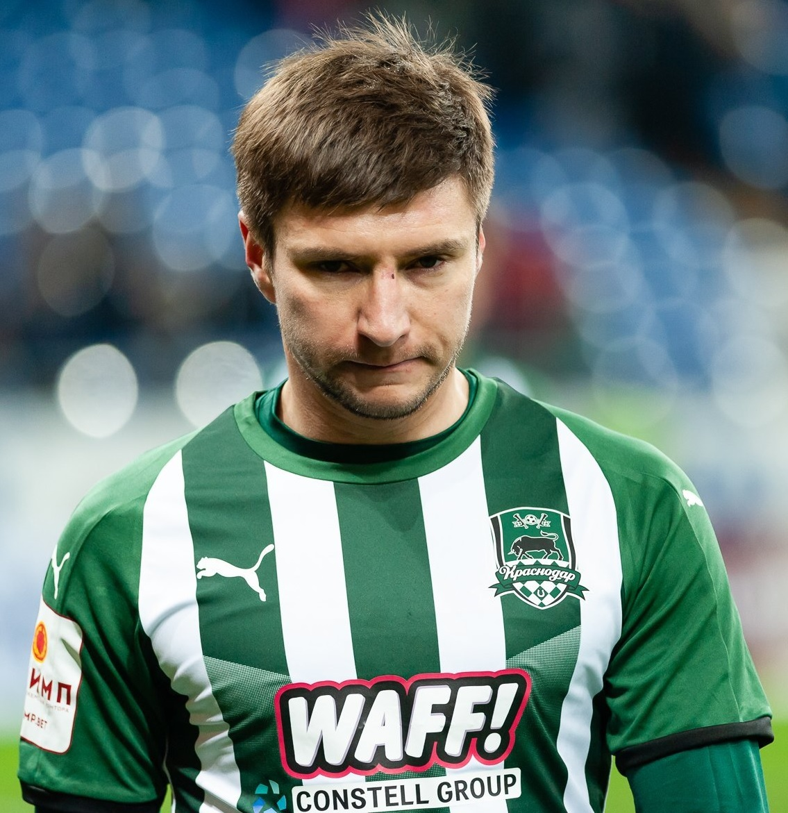 Dmitry Stotsky with FC Krasnodar in a Russian Cup game against FC Rostov.